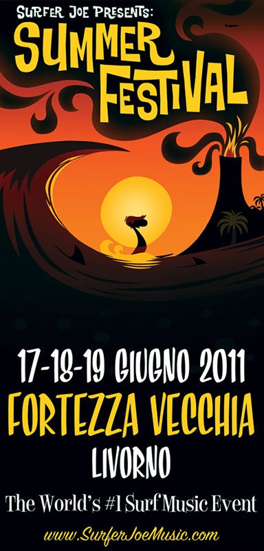 Poster of Surfer Joe Summer Festival 2011 by Fred Lammers